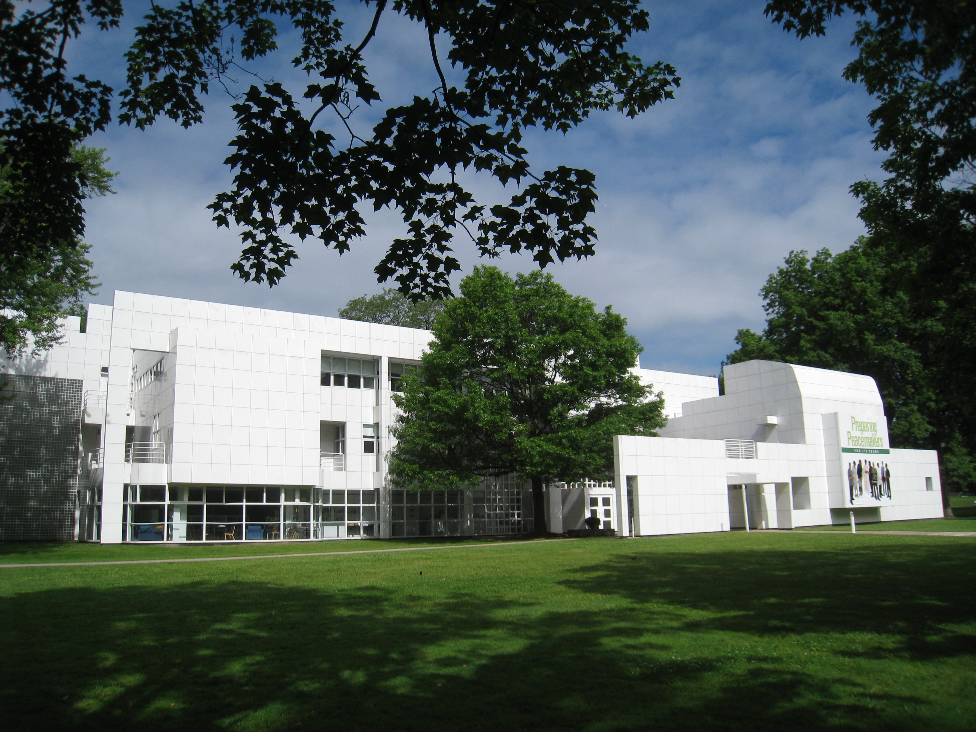 Hartford Seminary - 77 Sherman Street, Hartford, Connecticut, USA. Architect Richard Meier, built 1978-1981.